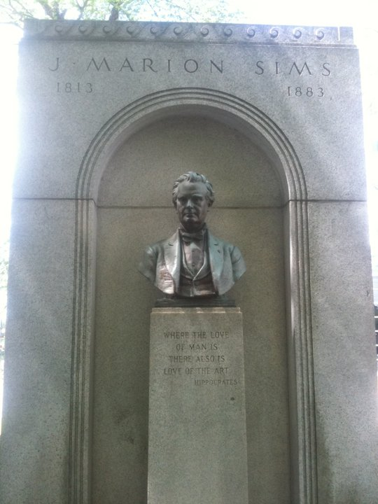 Statue of J. Marion Sims at the South Carolina State House in Columbia, SC